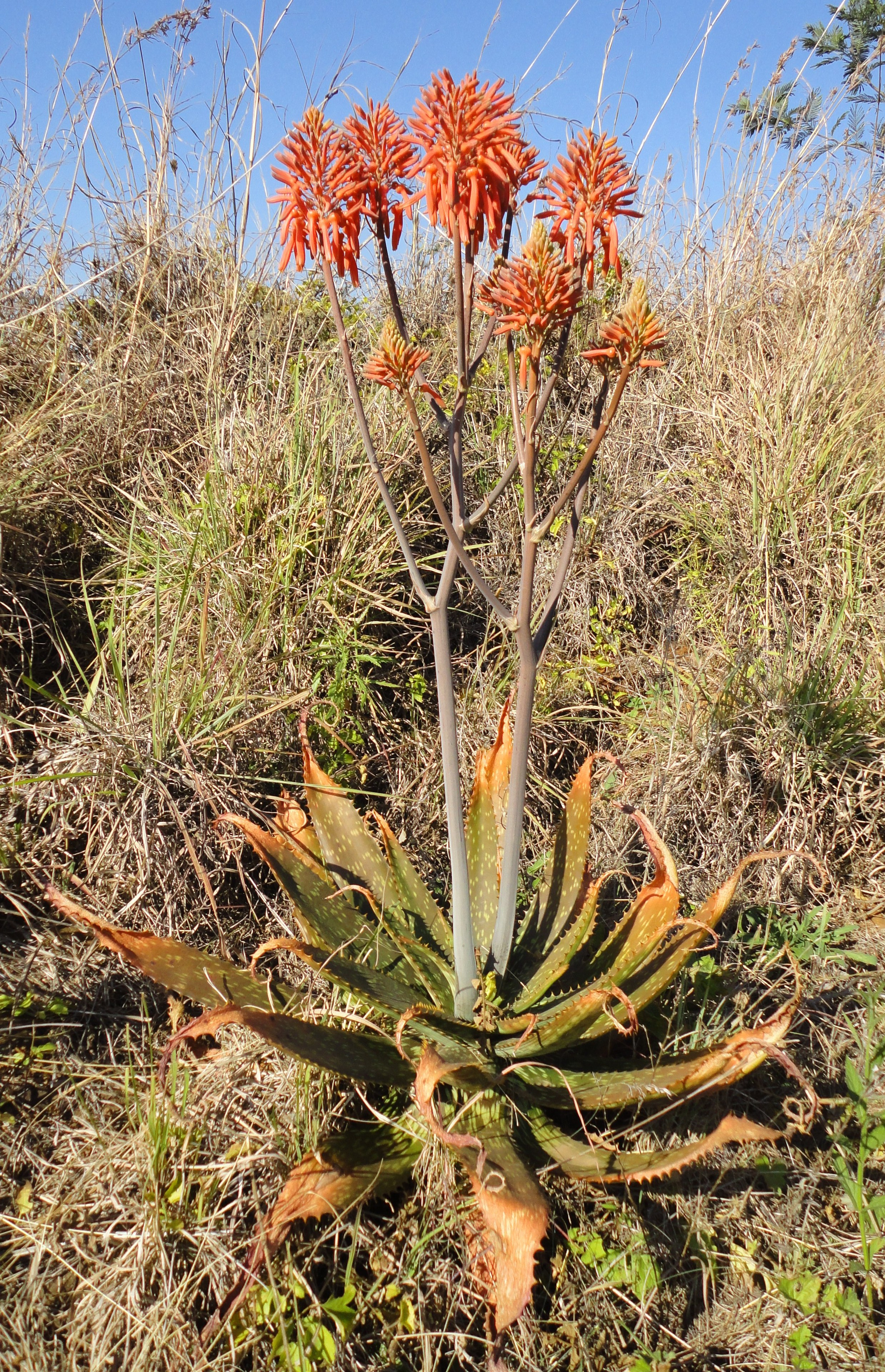 A Spotted aloe growing on grassy roadside near Louwsburg, KwaZulu-Natal